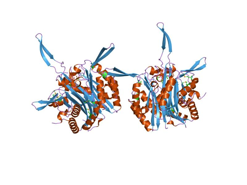 Cartoon representation of the molecular structure of protein registered with 1vh8 code.